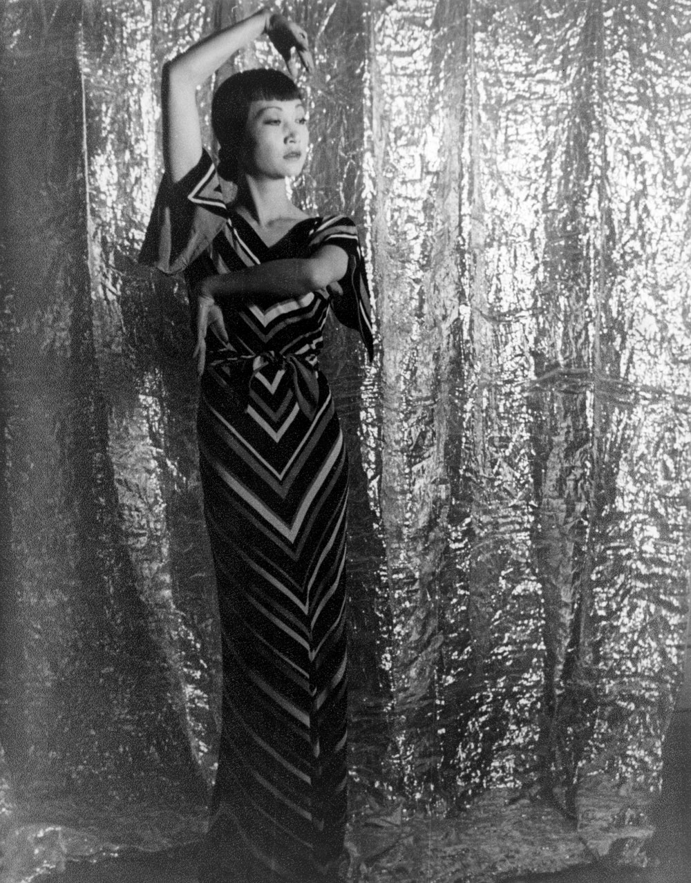 Portrait of Anna May Wong